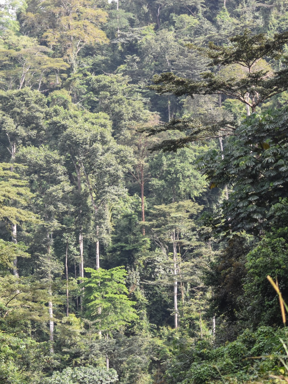 Montane rainforest near to Sérédou (Ziama)